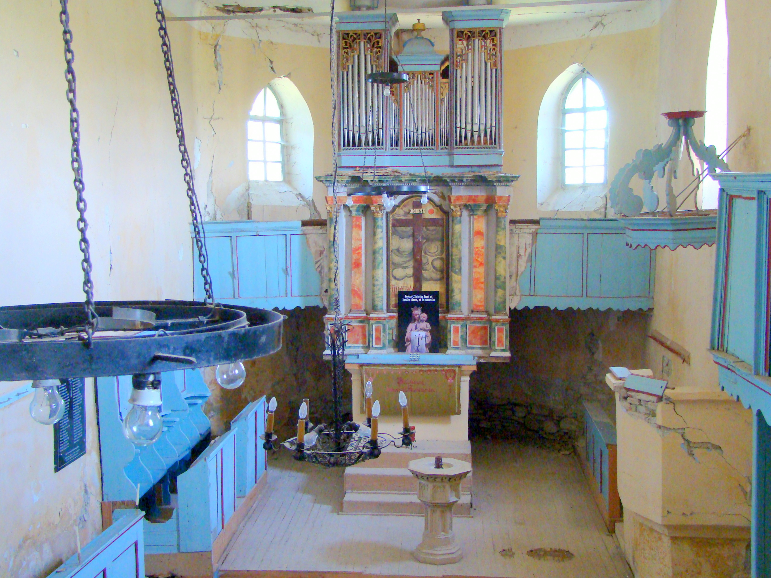 Lutheran church in Hetiur, Mureș County, Romania